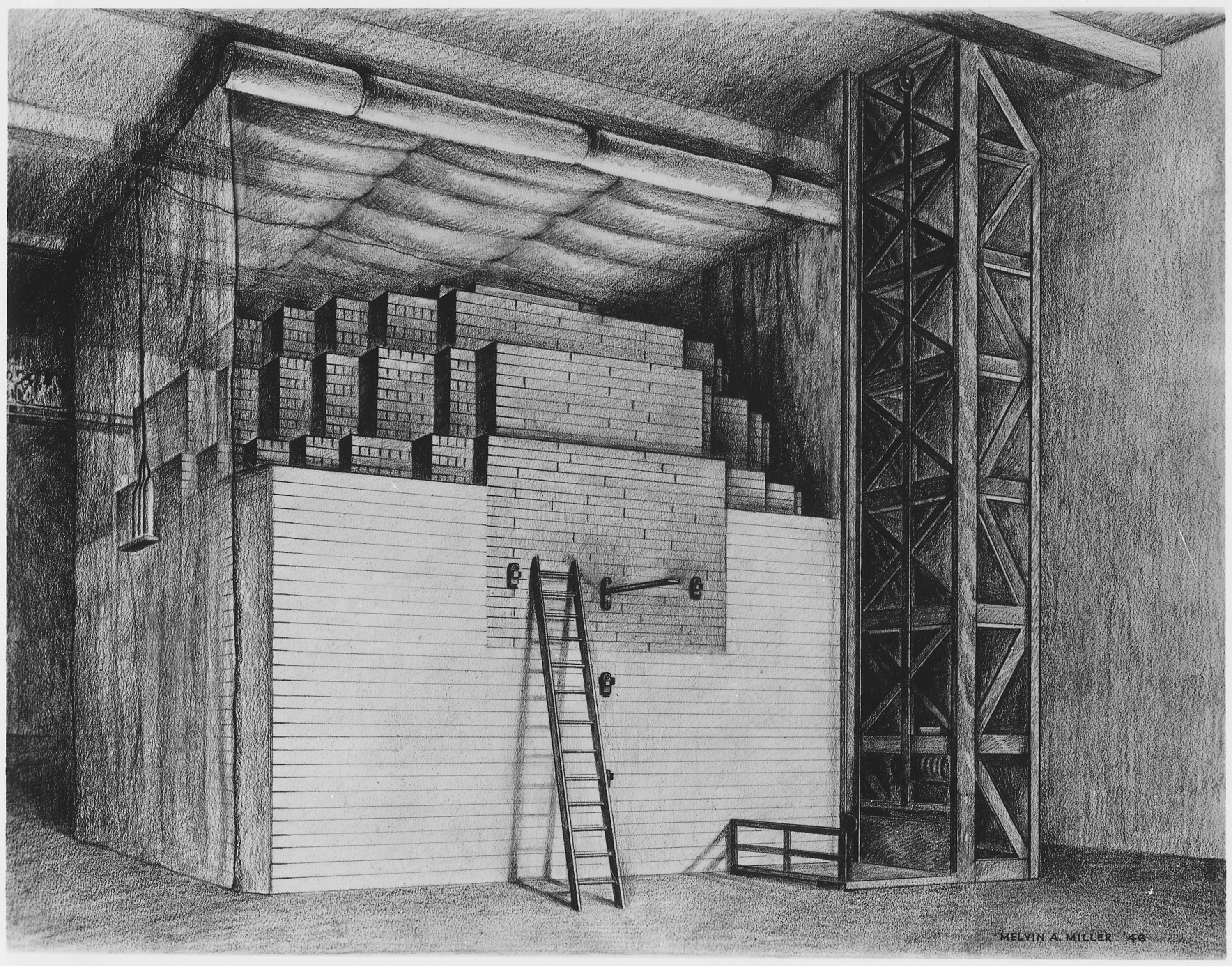 The first nuclear reactor was erected in 1942 in the West Stands section of Stagg Field at the University of Chicago. On December 2, 1942 a group of scientists achieved the first self-sustaining chain reaction and thereby initiated the controlled release of nuclear energy. The reactor consisted of uranium and uranium oxide lumps spaced in a cubic lattice embedded in graphite. In 1943 it was dismantled and reassembled at the Palos Park unit of the Argonne National Laboratory.